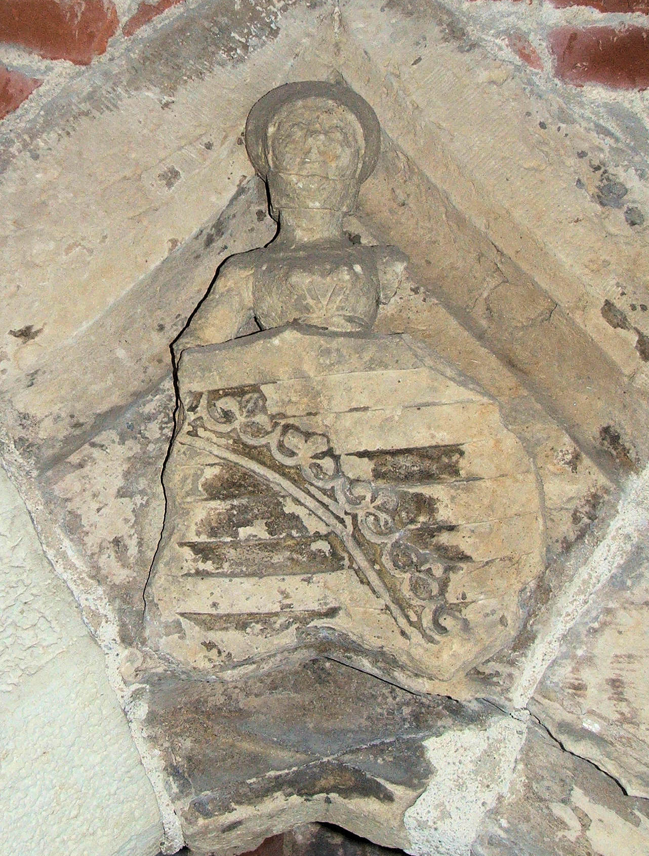 Keystone of the old castle in Liebenwerda, Coart of arms saxony, maybe Euphemia von Oels